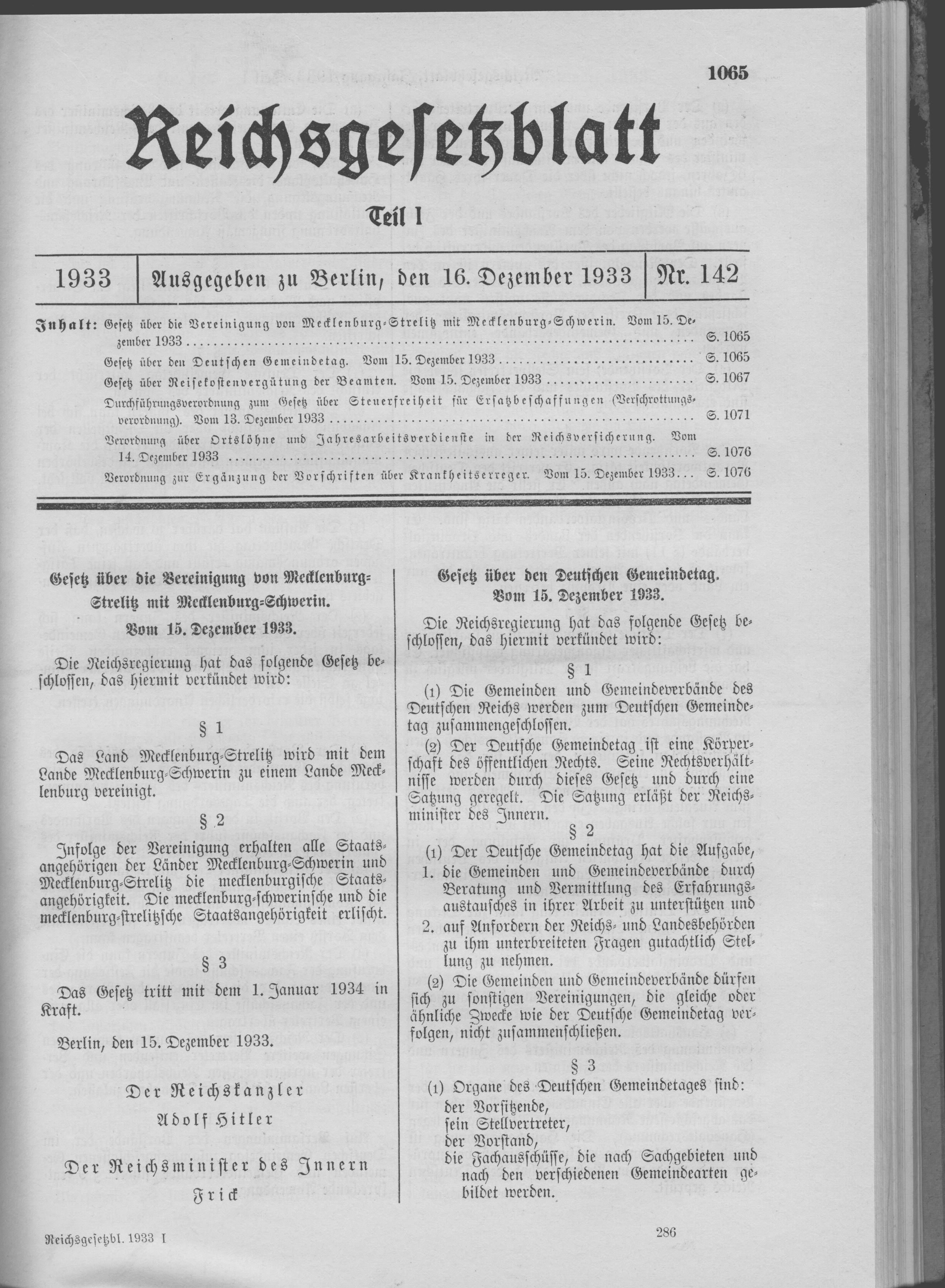 Scan from the Imperial Law Gazette of Germany, 1933, part 1